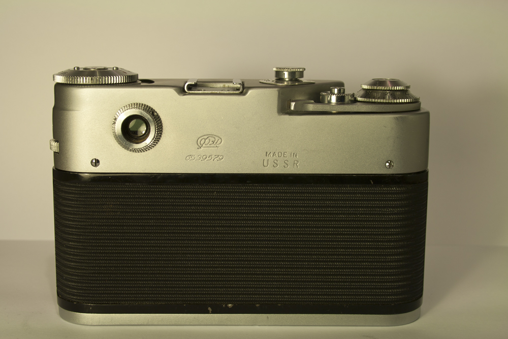 This shows the manufacturing location of the FED 4 camera which applies to other cameras by FED, proving it was a Soviet-made camera.